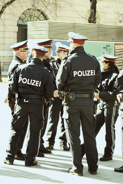 Police officers of the Austrian federal police at the MuseumsQuartier in Vienna.